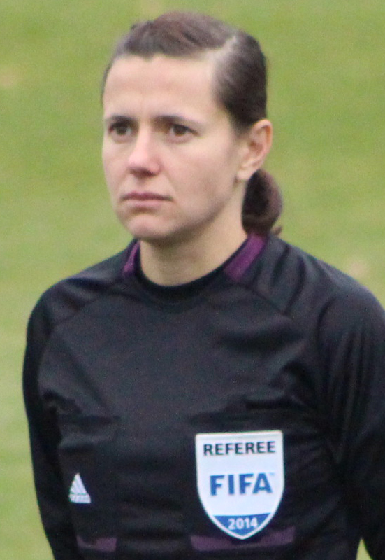 Kateryna Monzul